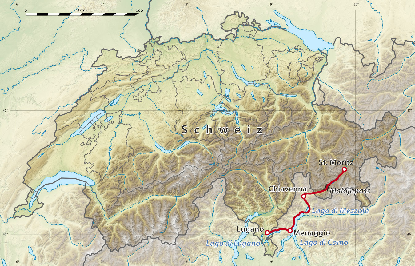 Route of the Palm-Express